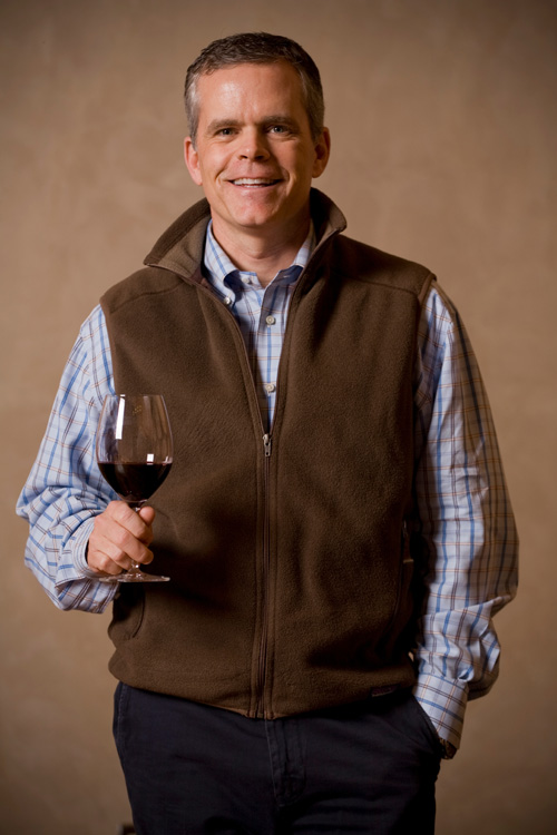 David Duncan, CEO of Silver Oak and Managing partner of Twomey Cellars.